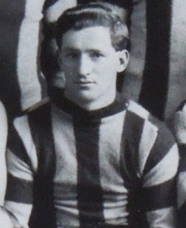 Photograph of Charlie Mutch in 1914